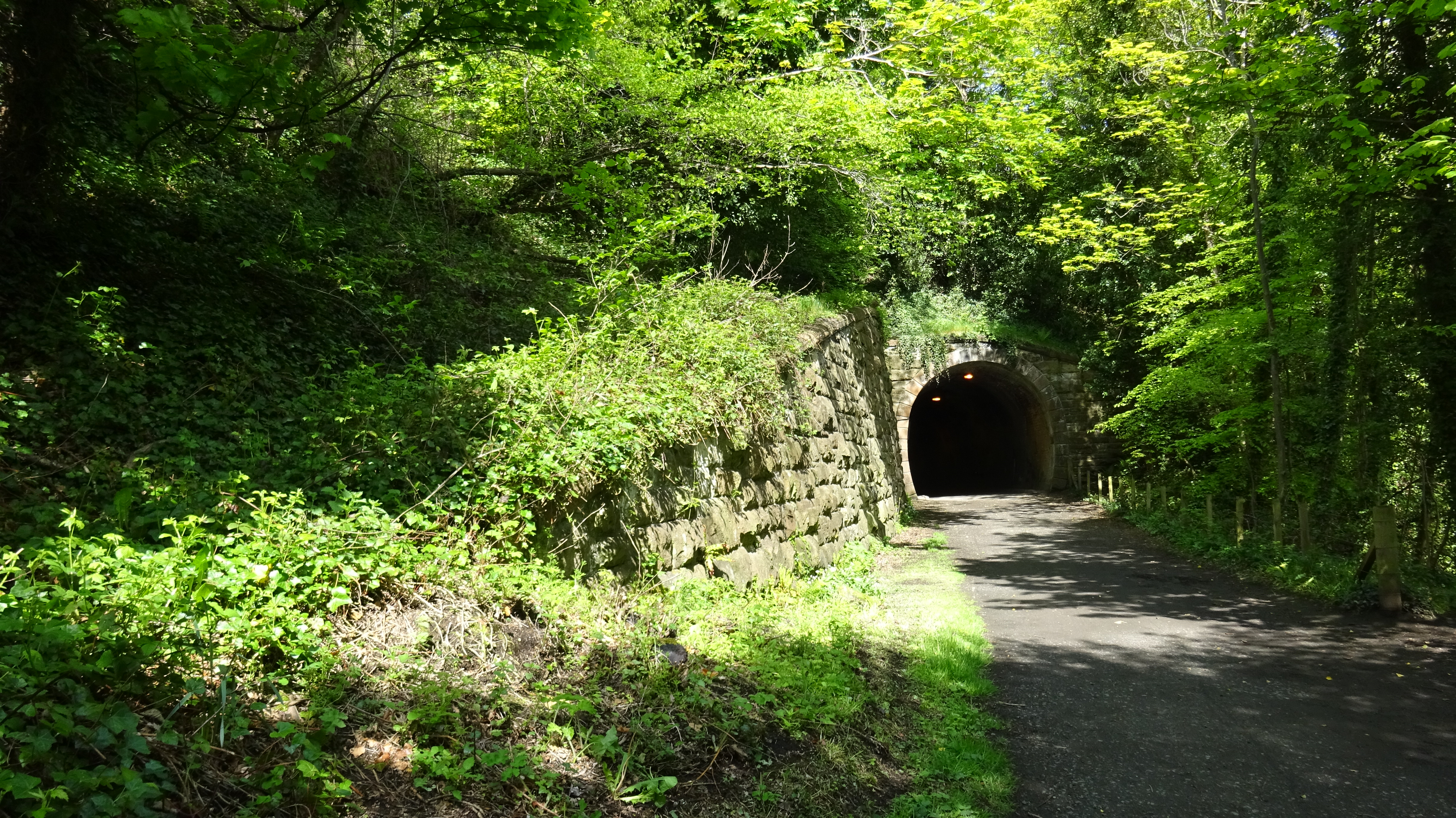 Colinton station 'Jacobs Ladder' site on the left and west portal of tunnel, Balerno Loop, Edinburgh. Water of Leith Walkway.